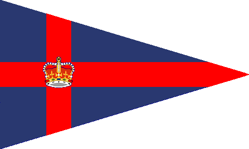 Yachto Club Flag